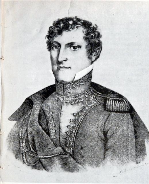 Litography of Argentine hero Manuel Belgrano.